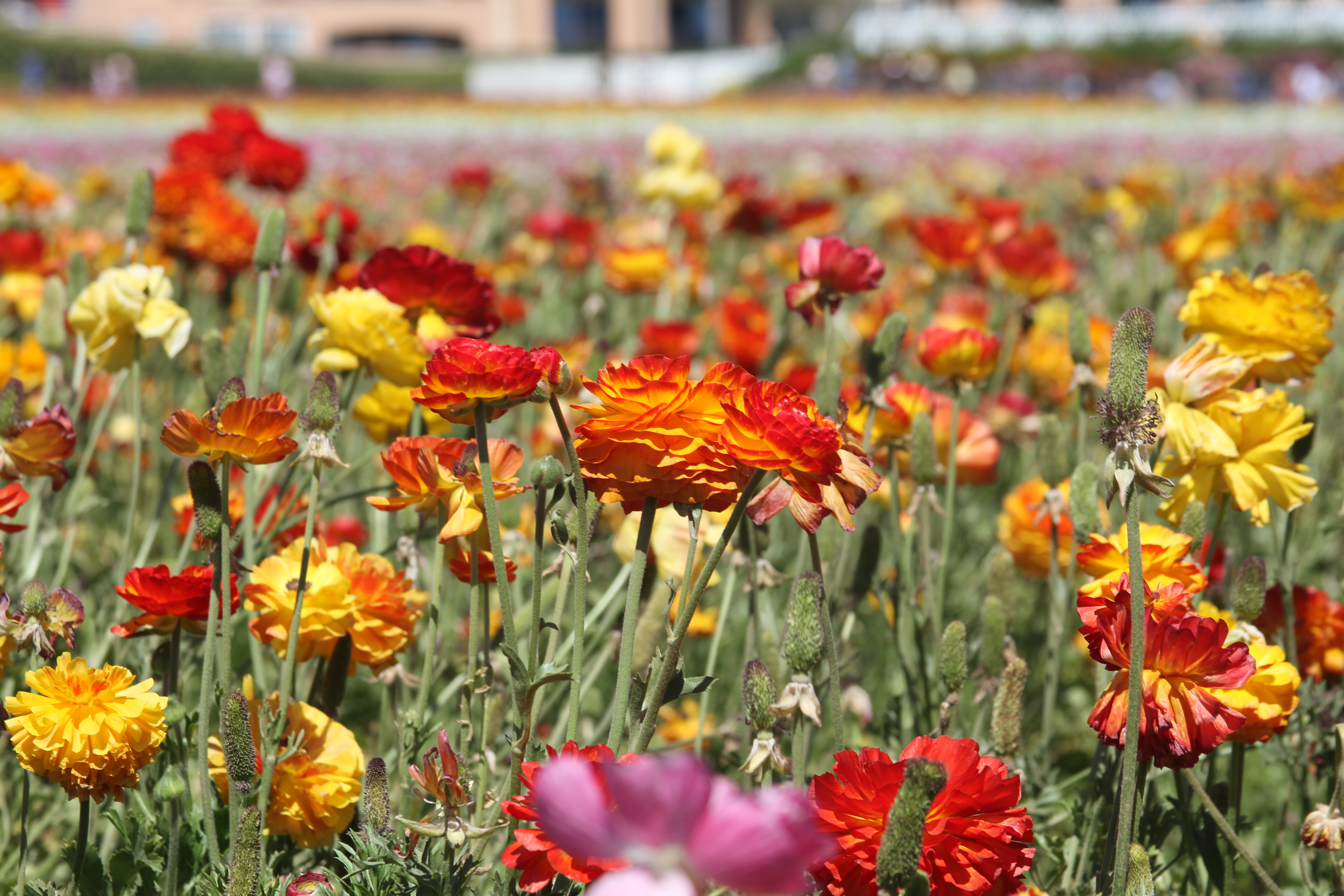 Close-up of multiple flowers at Carlsbad flower fields